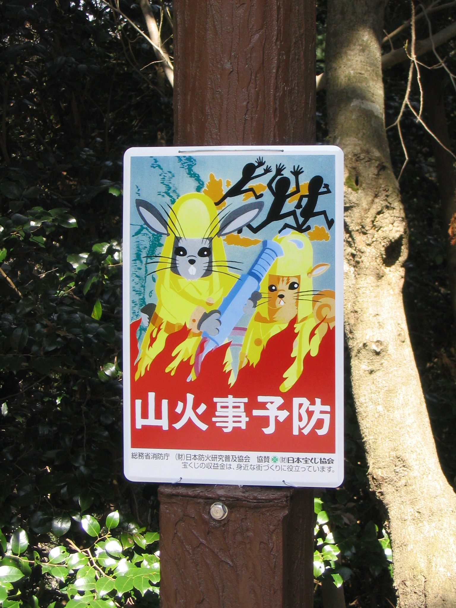 Sign against forest fires in Iwakuni near Iwakuni castle, Japan